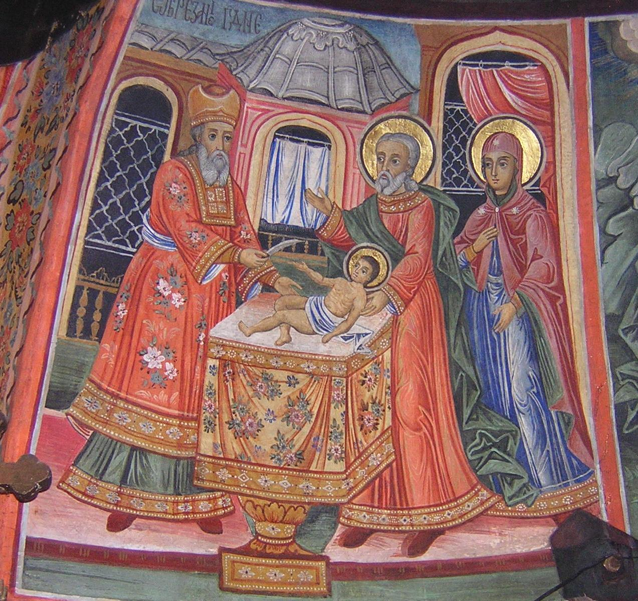 The circumcision of Christ, Preobrazhenski monastry, Bulgaria